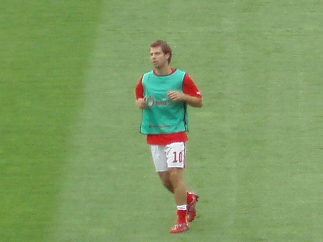 Andreas Ivanschit